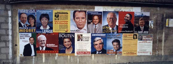 france president election (2002)